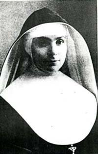 Picture of Mother Eugenia Ravasio